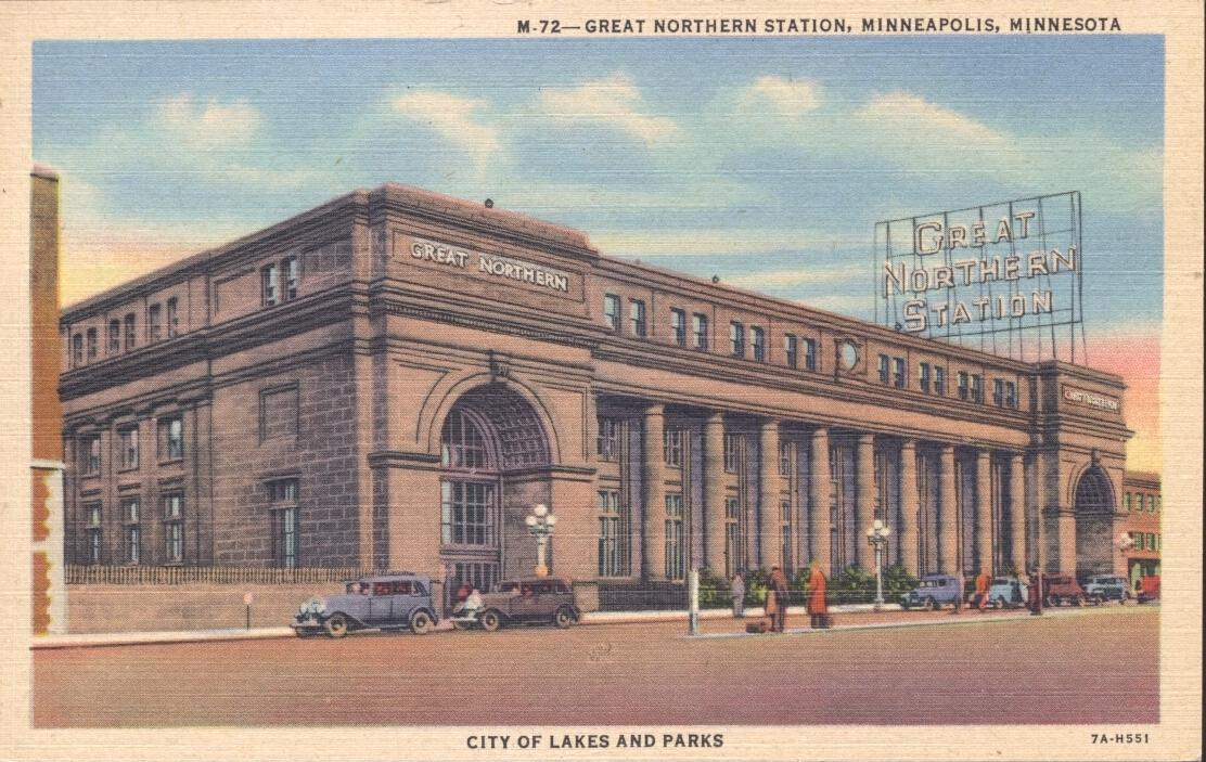 Postcard picture of Great Northern Railway Station, Minneapolis, MN, c. 1930.